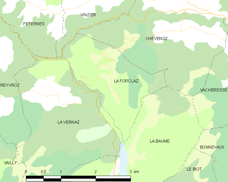 Map of French municipality La Forclaz